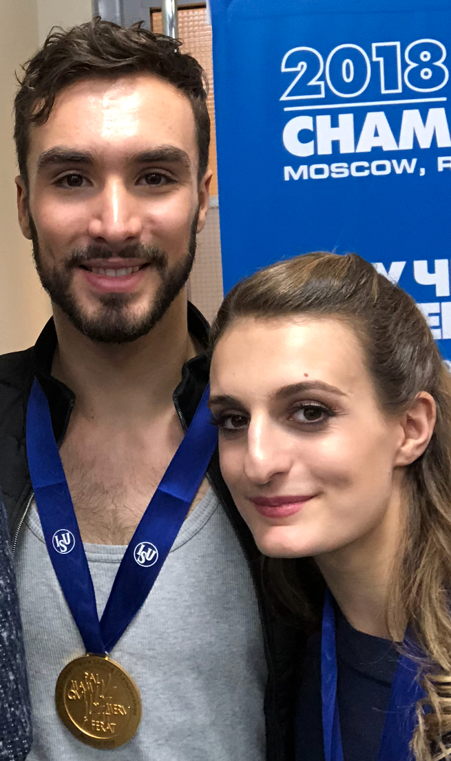 Gabriella Papadakis & Guillaume Cizeron at the 2018 European Figure Skating Championships in Moscow